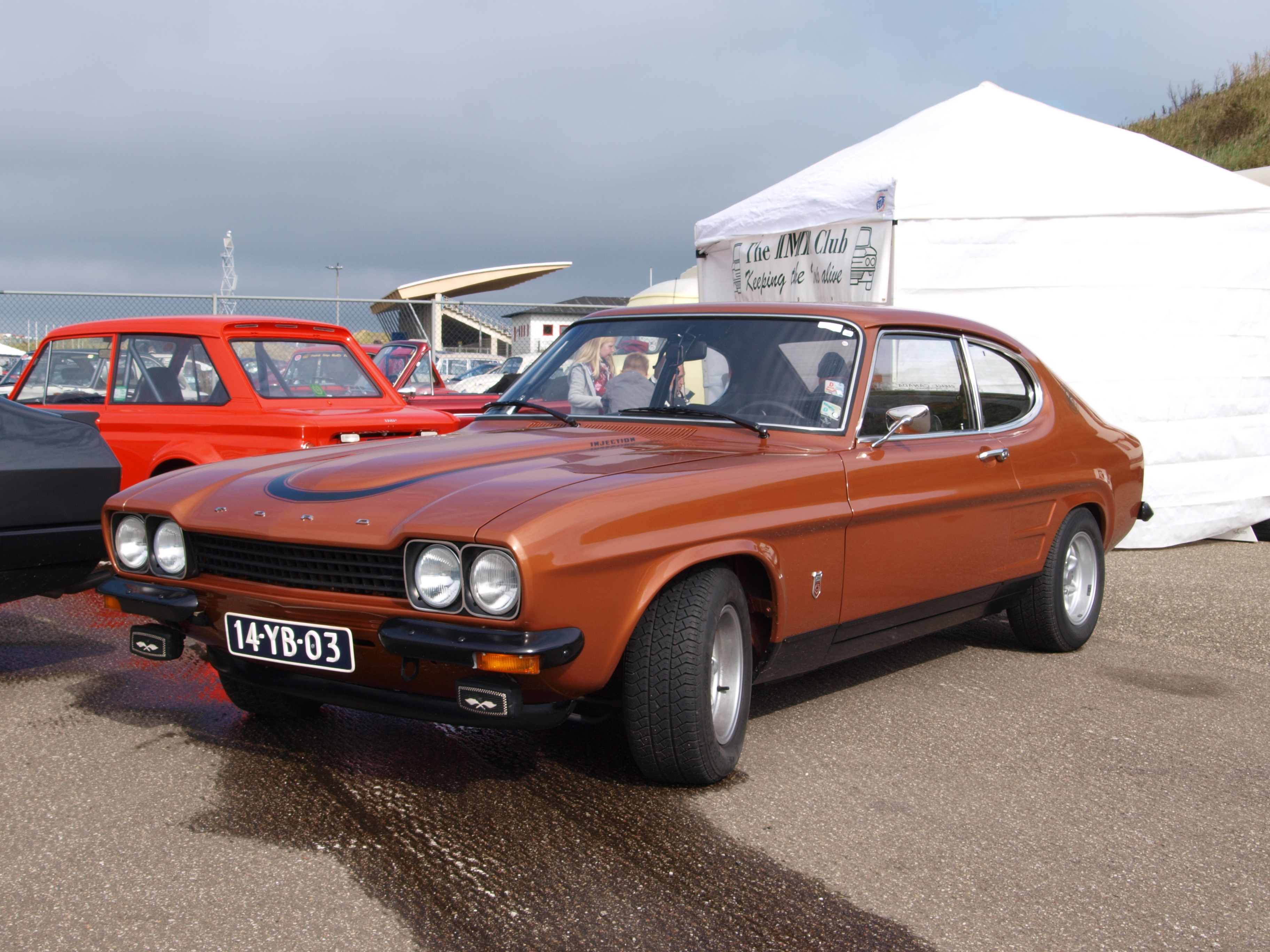 Photographed at the Nationaal Oldtimer Festival Zandvoort 2010, The Netherlands.